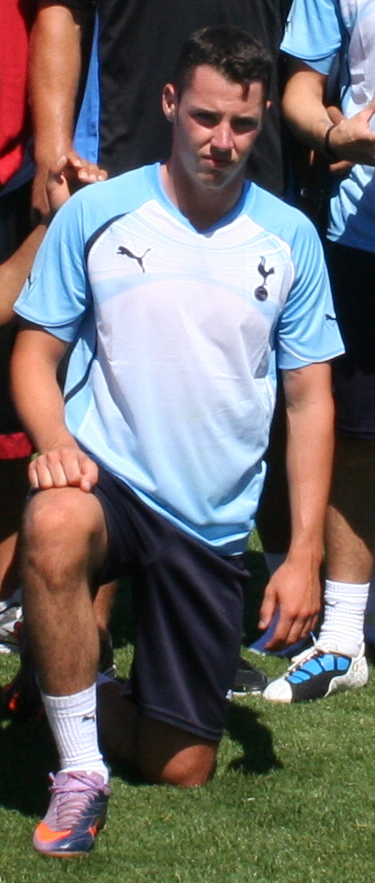 Players of Tottenham Hostpur posing with San Francisco 49ers' Alex Smith and Joe Staley